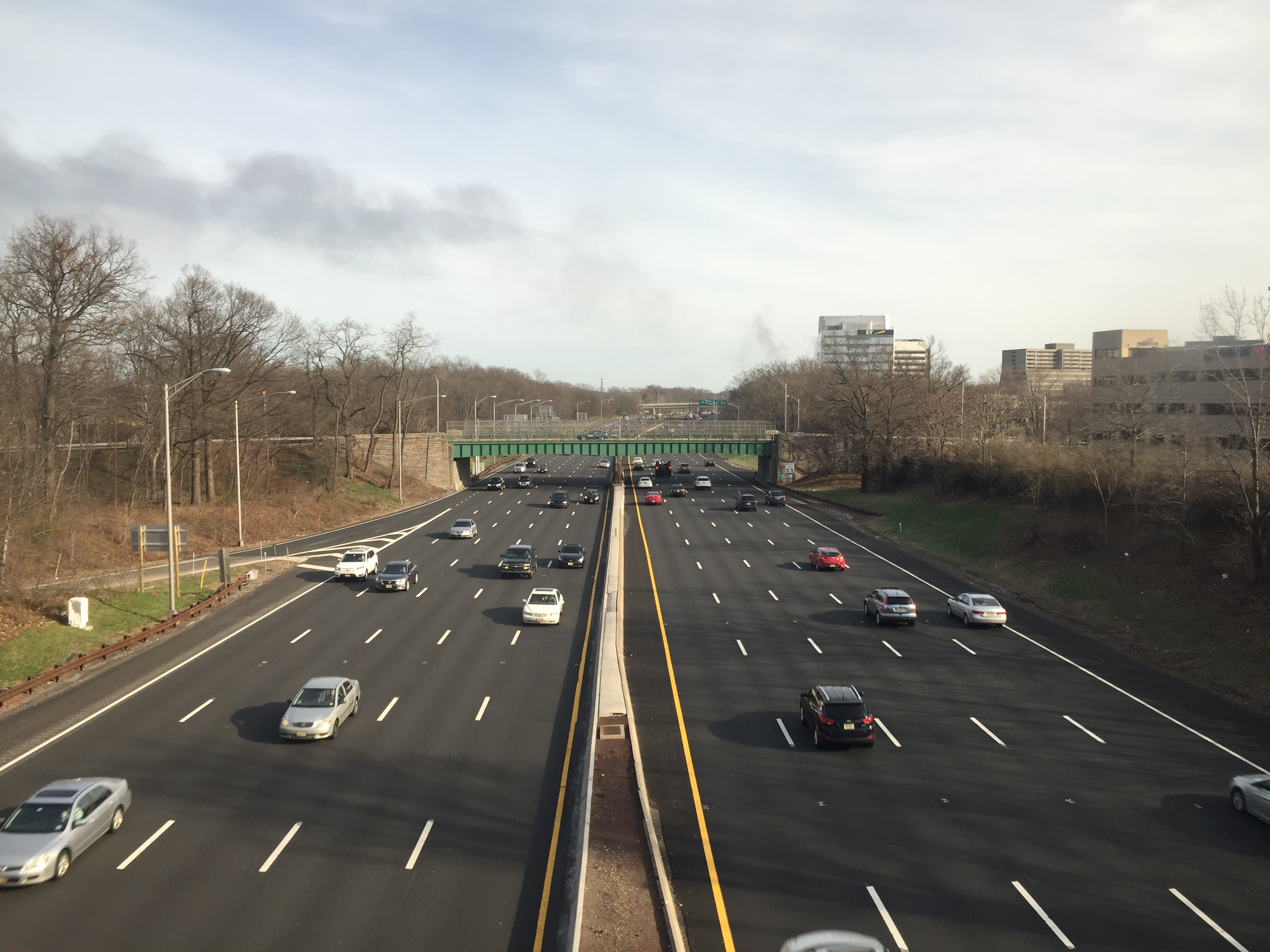 View south along the Garden State Parkway from the Northeast Corridor overpass in the Iselin section of Woodbridge, New Jersey